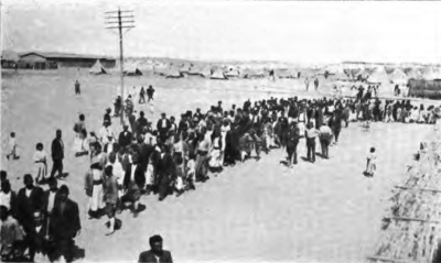 Near East relief refuge camp Port Said